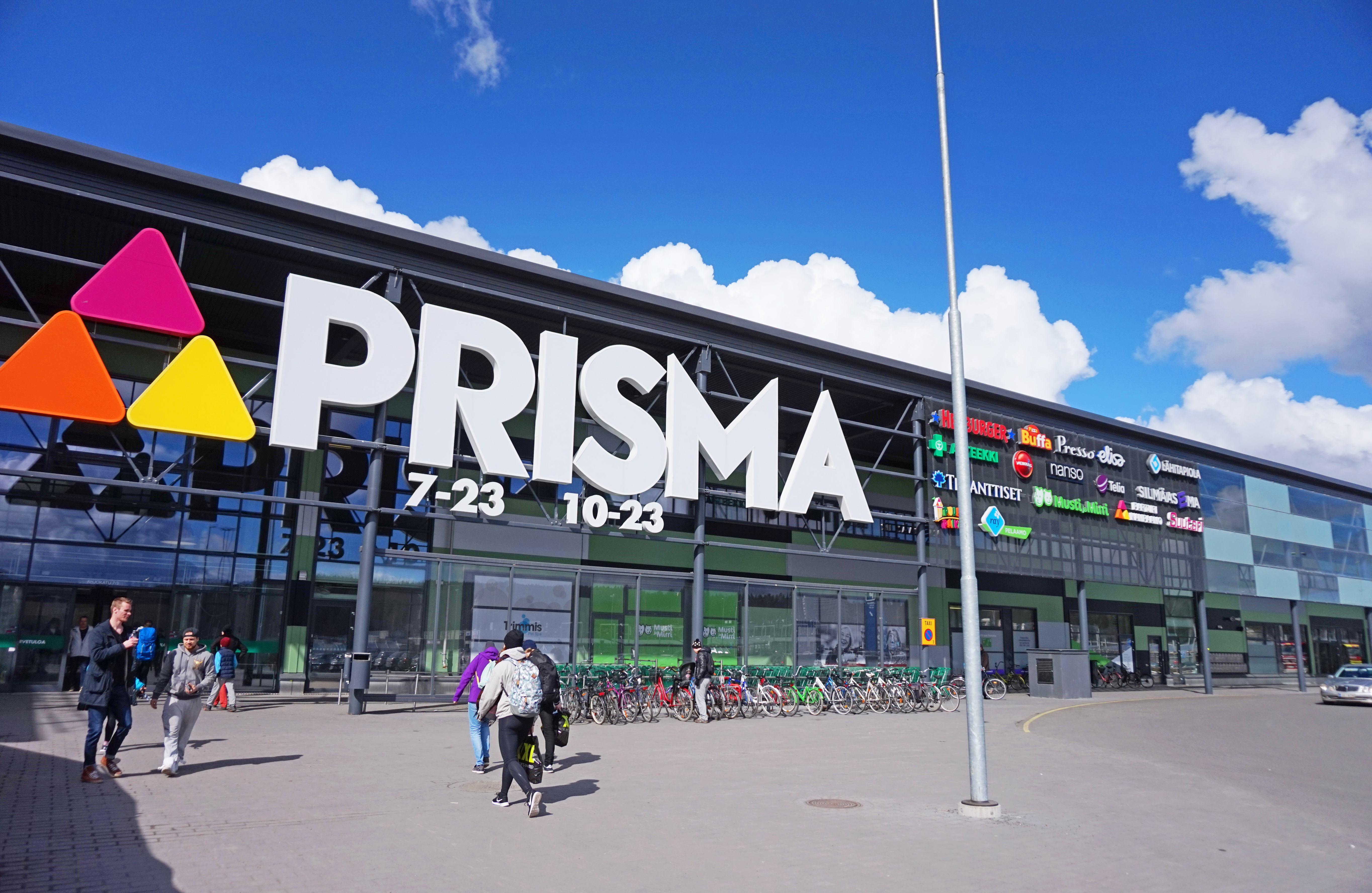 Prisma Seppälä in Jyväskylä. April 2017.This photograph was taken with a Sony ILCE-5000